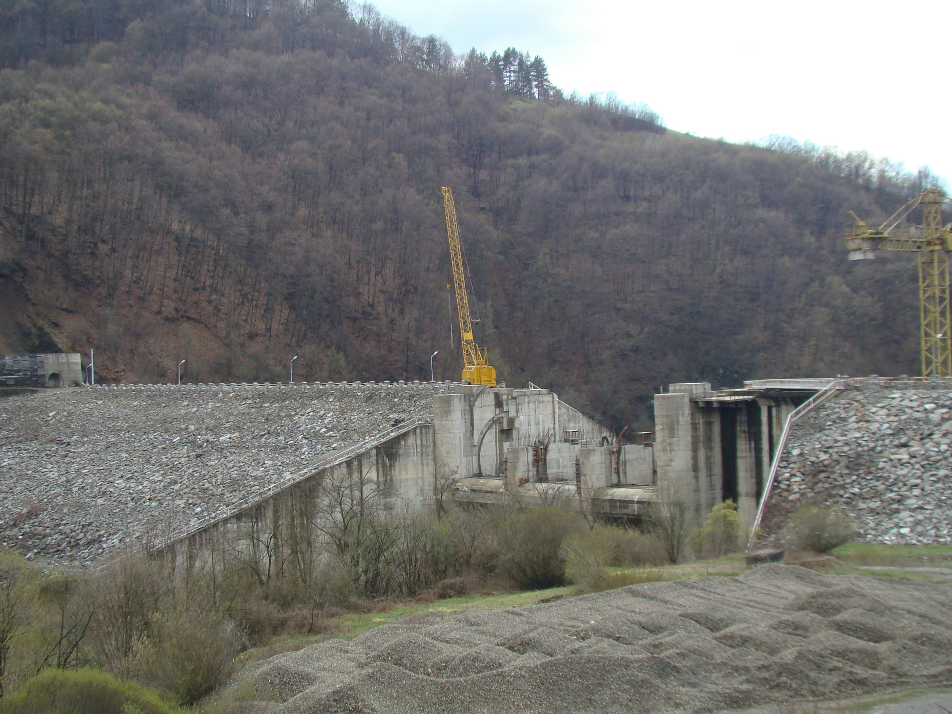 Mihăileni, Hunedoara county, Romania